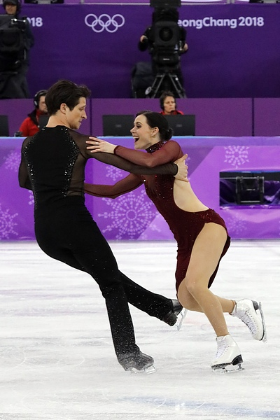 Tessa Virtue and Scott Moir at the 2018 Winter Olympic Games in PyeongChang